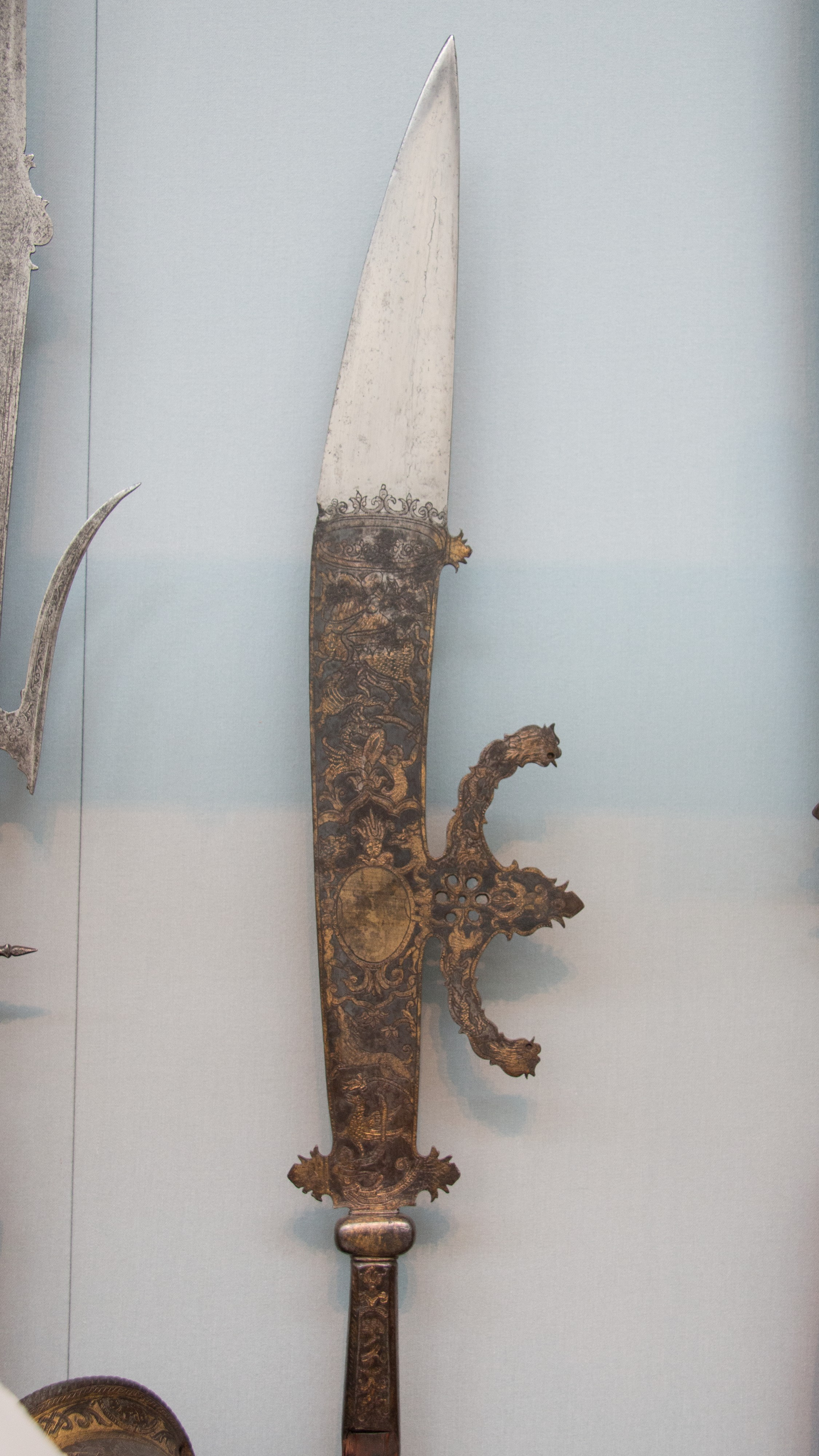 Italian; Glaive; Shafted Weapons